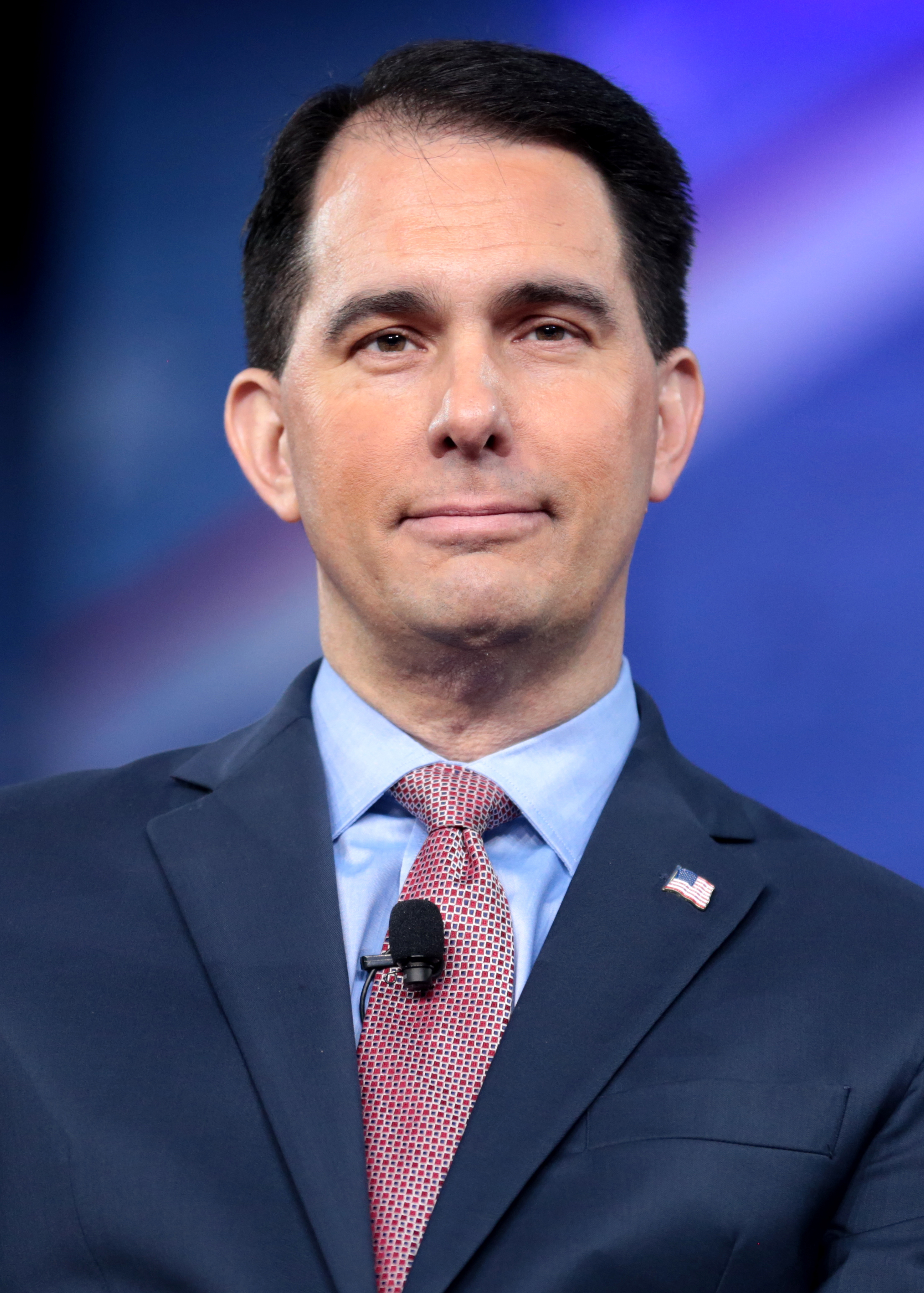 Scott Walker speaking at the 2017 CPAC in National Harbor, Maryland.